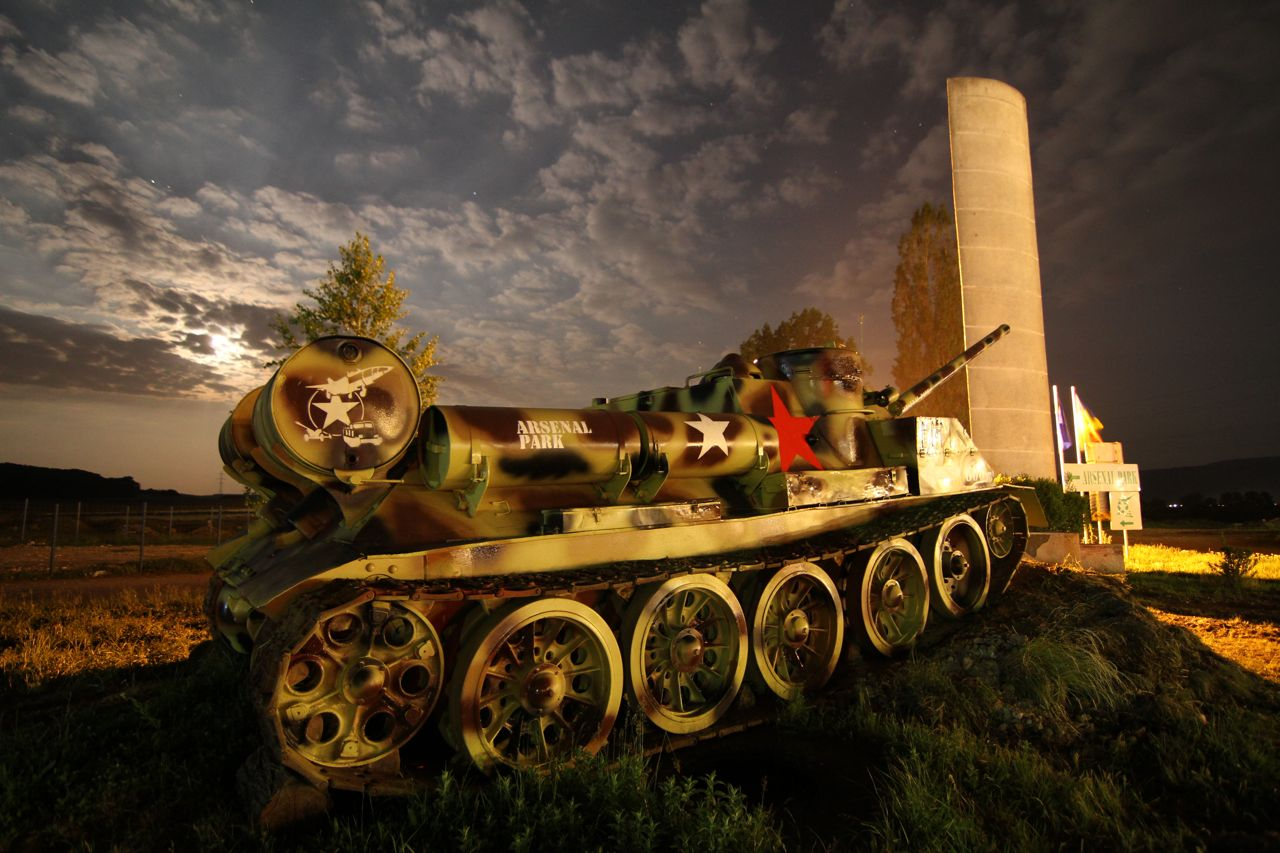 SU 100 - Arsenal Park Transilvania Museum Photo make by Ciprian Boca and Eduard Schneider